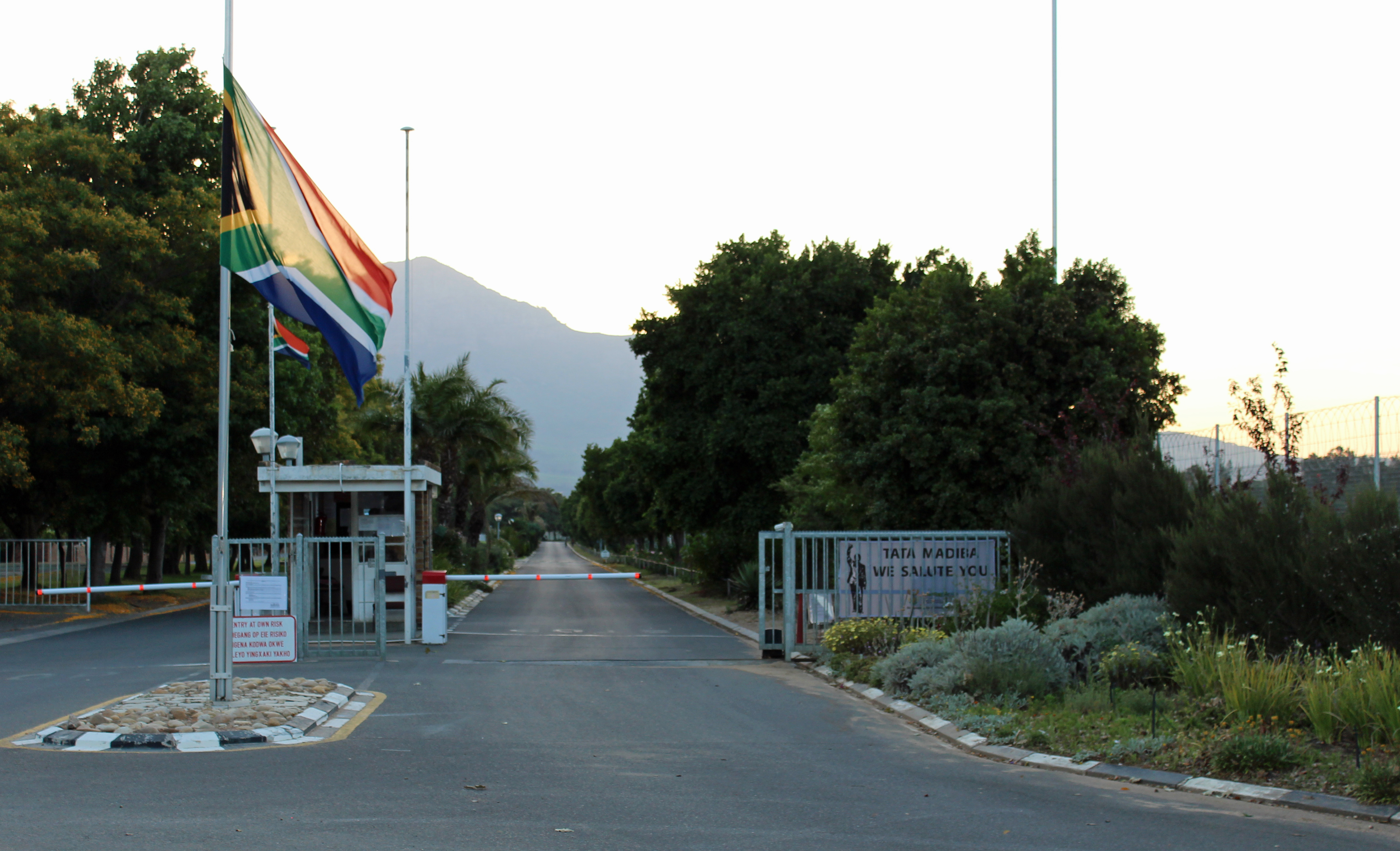 South African flag flying half-mast outside Drakenstein Correctional Centre during the national mourning period for Nelson Mandela. The banner on the gate reads "Tata Madiba We Salute You".